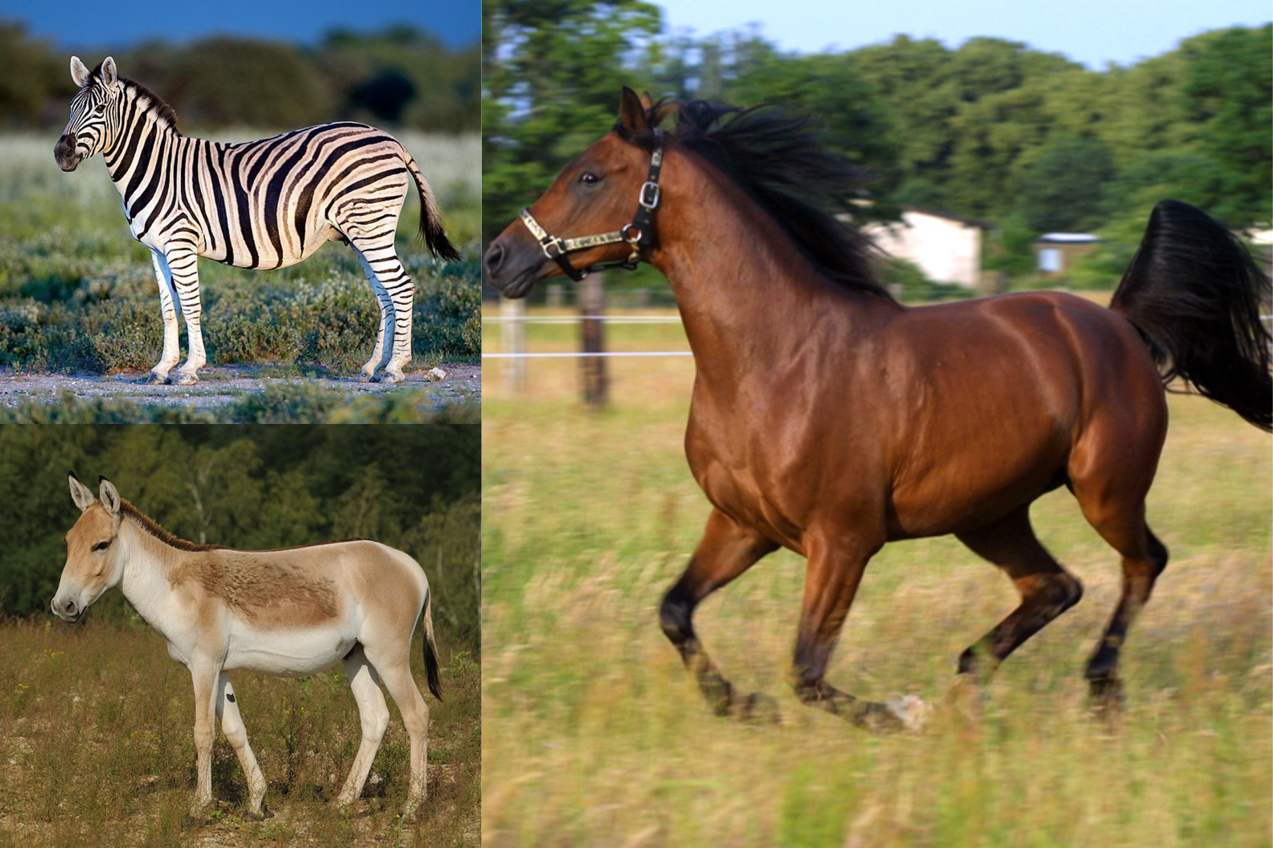 Living species of the genus Equus